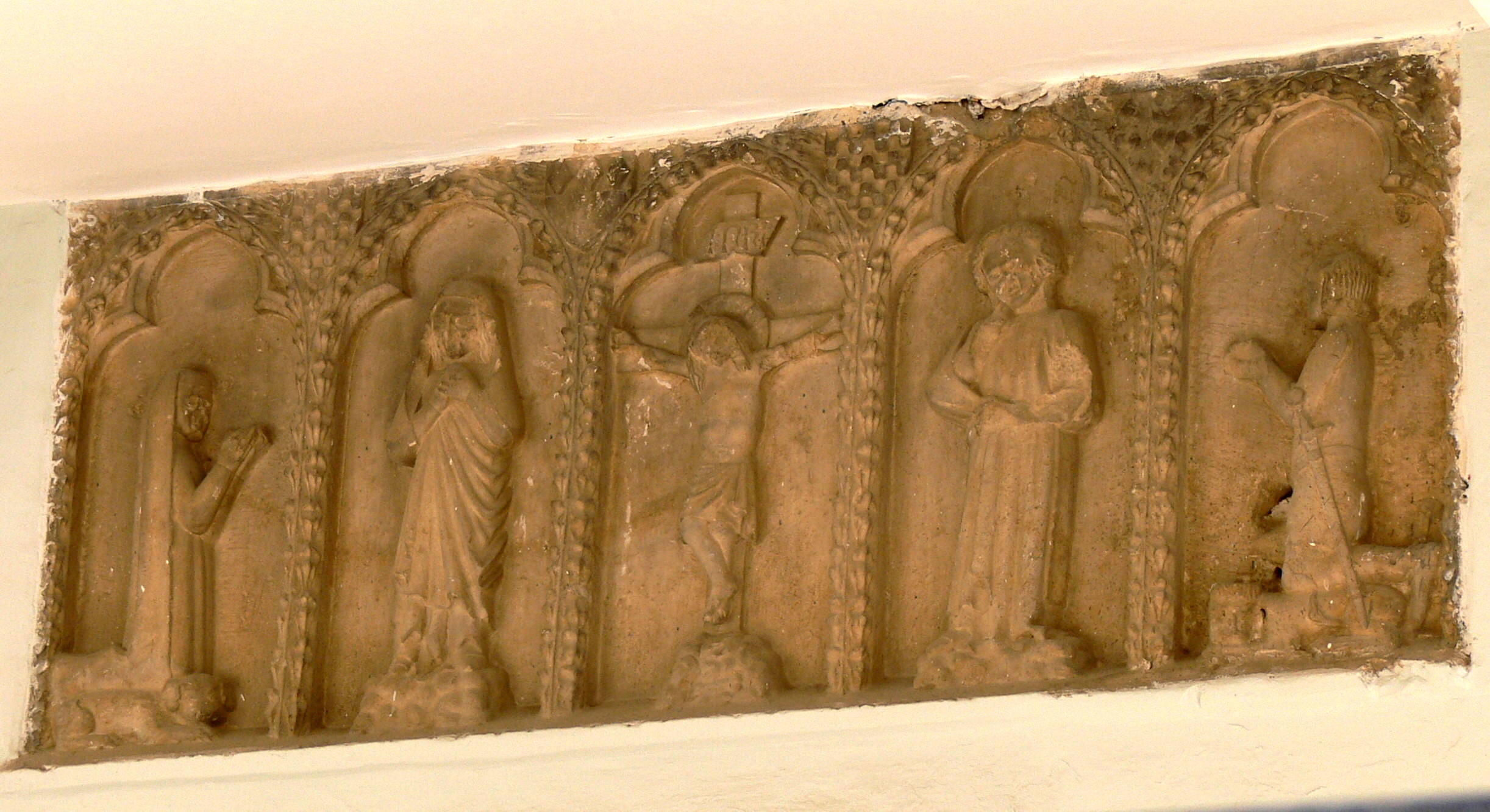 Nicosia ( Cyprus ). Cathedral of Saint John ( 1662 ): Gothic relief of a crucifixion group above the entrance.